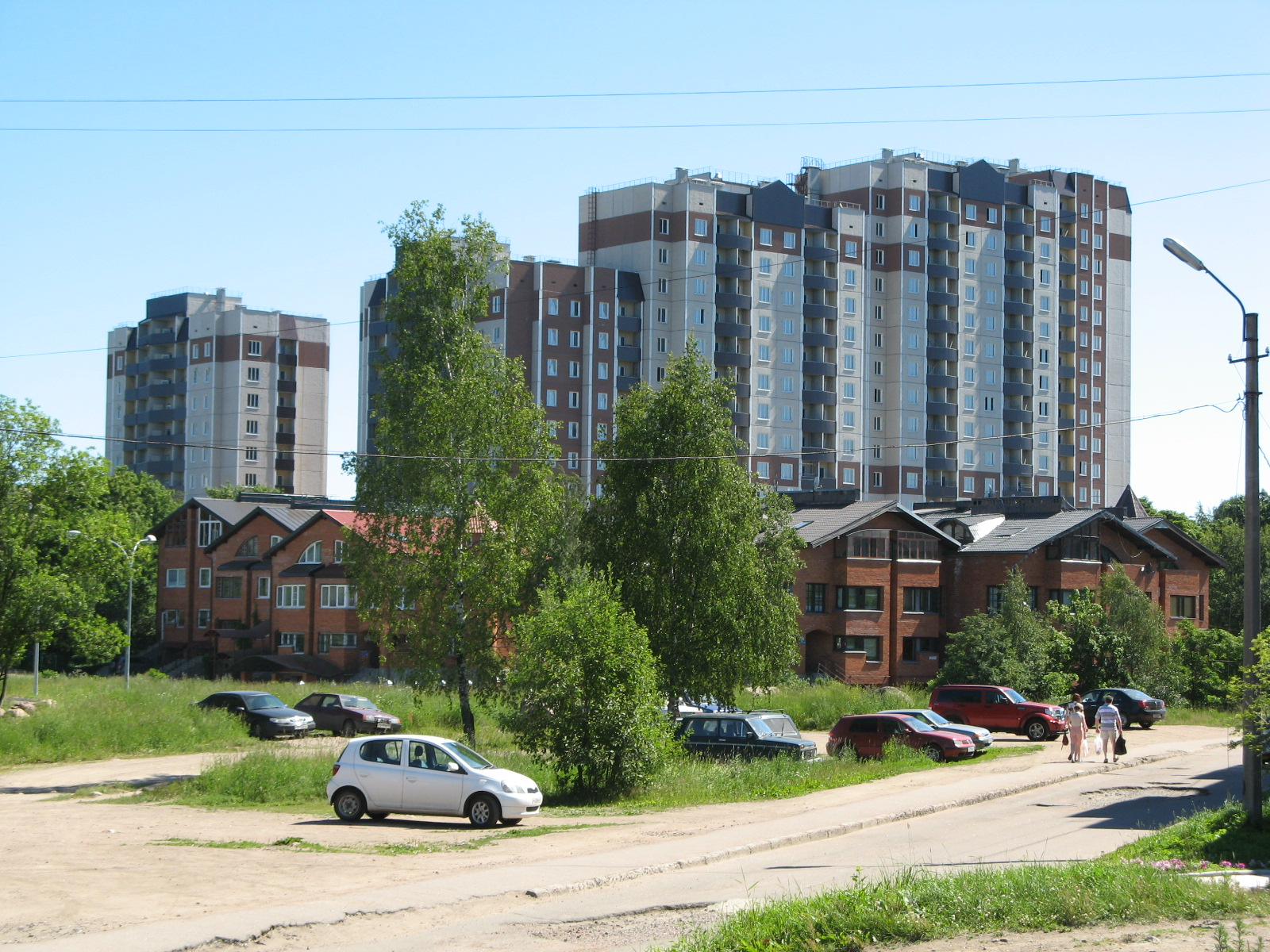 «Saima» residential complex in Vyborg, Russia.